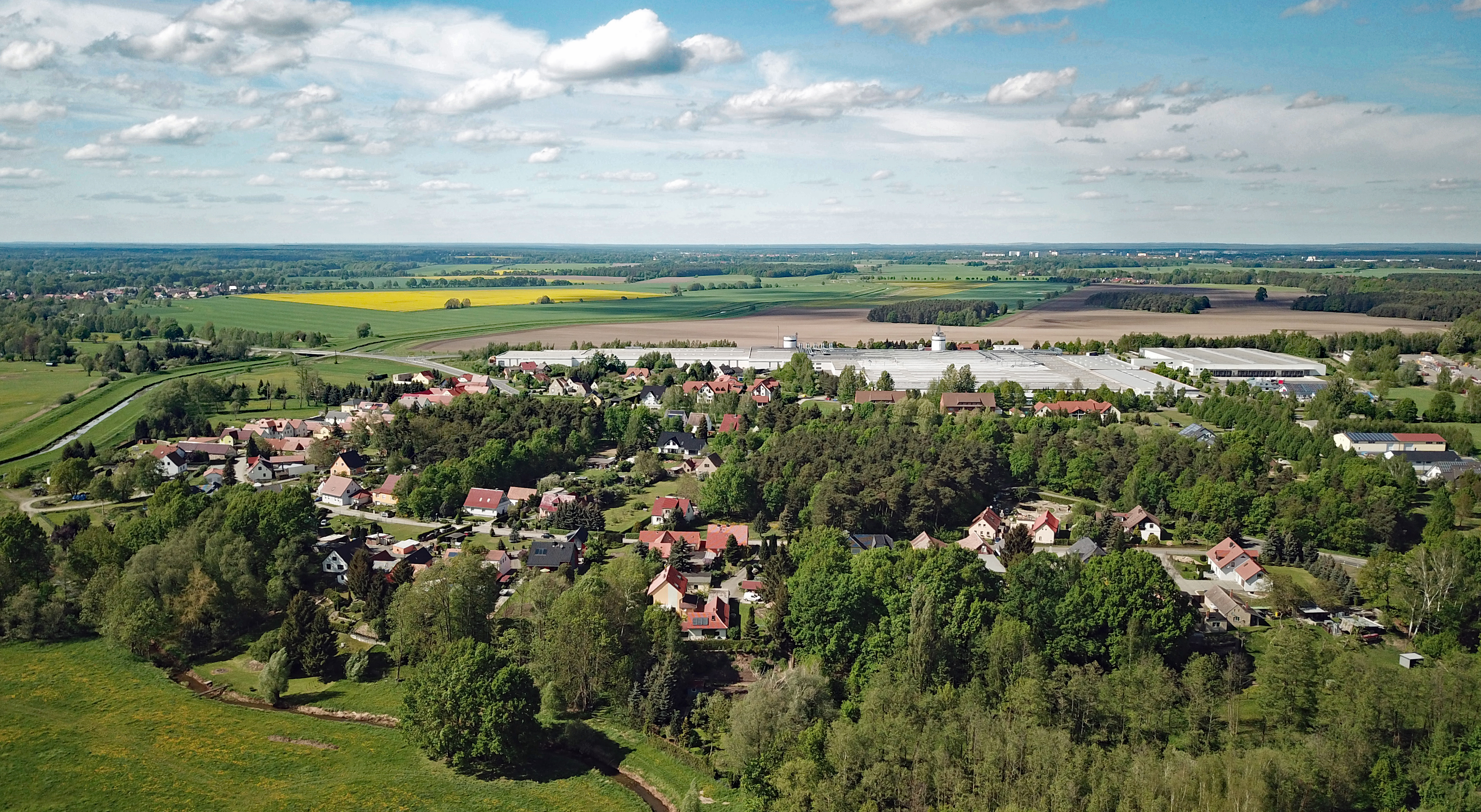 Brischko (Wittichenau, Saxony, Germany) Hornjoserbsce: Powětrowy wobraz Brěžkow